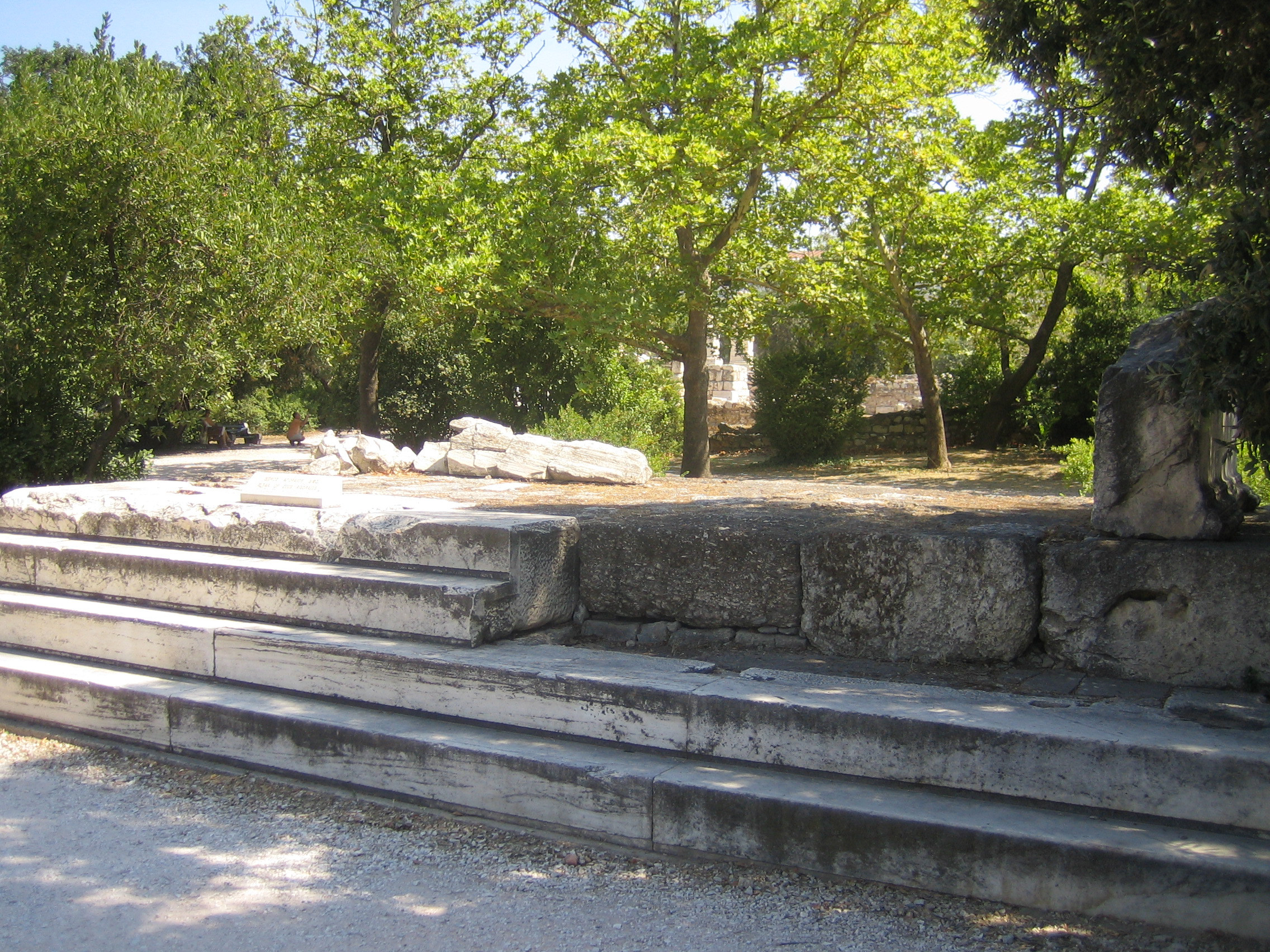 Altar of Zeus Agoraios, Ancient Agora of Athens, Greece.